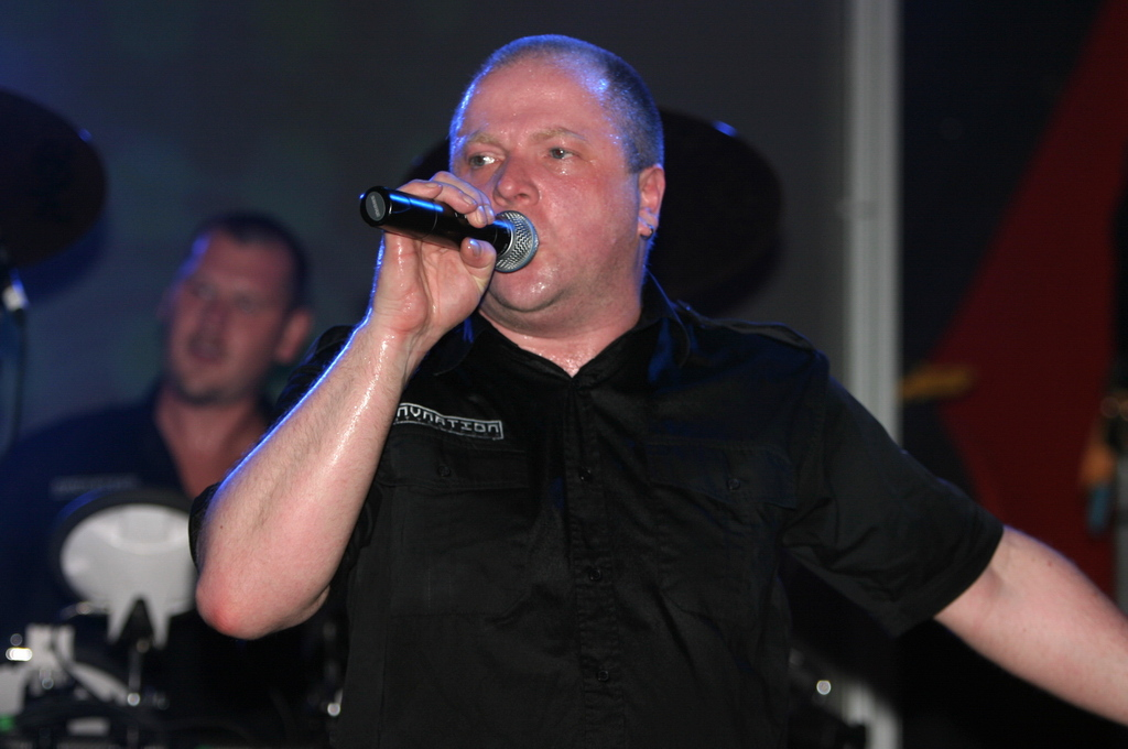 VNV Nation Live at Starlite Room, Edmonton, 2006